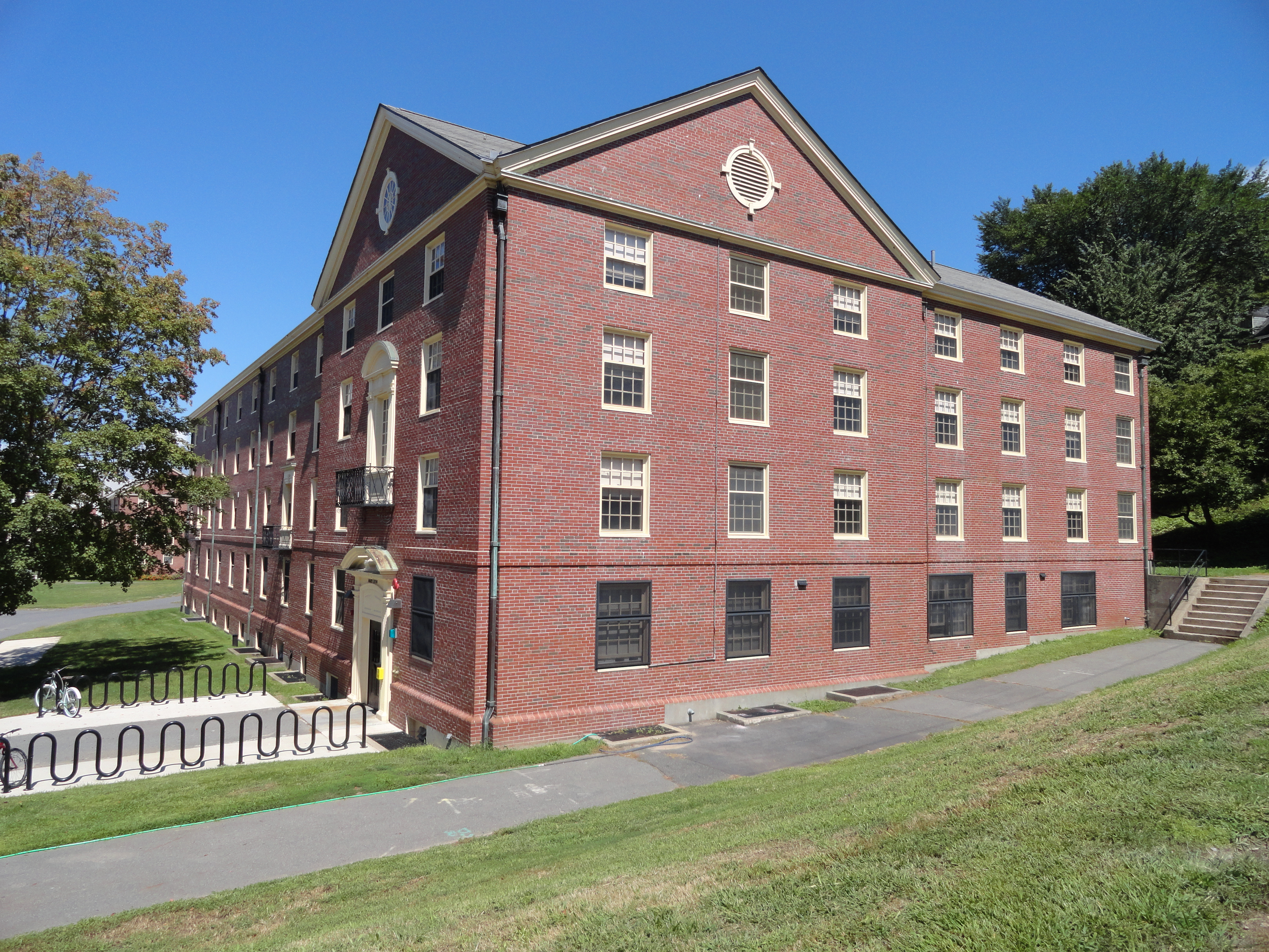 The Mary M. Lyon House at the University of Massachusetts Amherst.